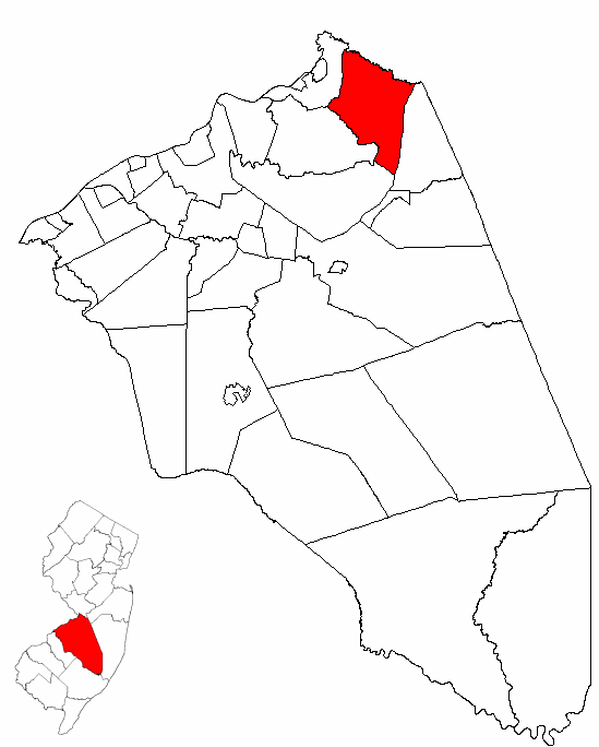 Map of Burlington County highlighting Chesterfield Township